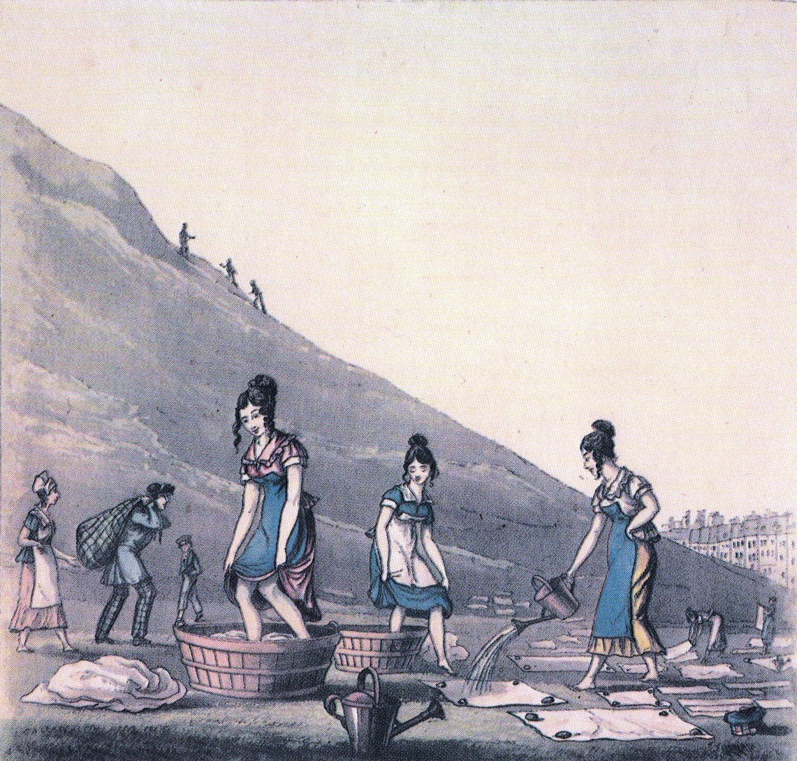 Women waulking at Greenside on the western slope of the Calton Hill which was traditionally used as a bleachfield. The sight of young girls trampling clothes in tubs was regarded by young blades as a rather attractive, not to say vaguely indecent spectacle. "...I shall take notice of one thing more, which is commonly to be seen by the sides of the river (and not only here, but in all the parts of Scotland where I have been), that is, women with their coats tucked up, stamping, in tubs, upon linen by this way of washing; and not only in summer, but in the hardest frosty weather, when their legs and feet are almost literally as red as blood with the cold; and often two of these wenches stamp in one tub, supporting themselves by their arms thrown over each other's shoulders." -- Cpt. Edmund Burt, Letters from A Gentleman in the North of Scotland, 1754 (see Slezer's view of Dundee in Theatrum Scotiae where this is shown [1])